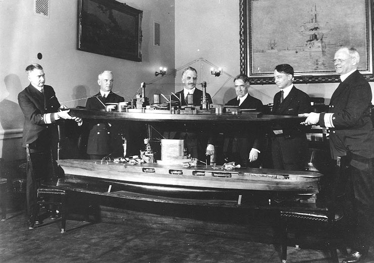 Rear Admiral David W. Taylor, USN (left), Chief of the Bureau of Construction and Repair, and Rear Admiral John K. Robison, USN (right), Chief of the Bureau of Engineering, hold a model of the battle cruisers (CC-1 class) then under construction, 8 March 1922. In the foreground is a model of an aircraft carrier design converted from the battle cruiser hull. This photo illustrates the genesis of the Lexington-class aircraft carrier design. Standing in the background are (from left to right): Rear Admiral William A. Moffett, USN, Chief of the Bureau of Aeronautics; Congressman Frederick C. Hicks, of New York; Congressman Clark Burdick, of Rhode Island; and Congressman Philip D. Swing, of California. Photographed at the Navy Department by Harris & Ewing. Photograph from Department of the Navy collections in the U.S. National Archives (# 80-CF-395b).